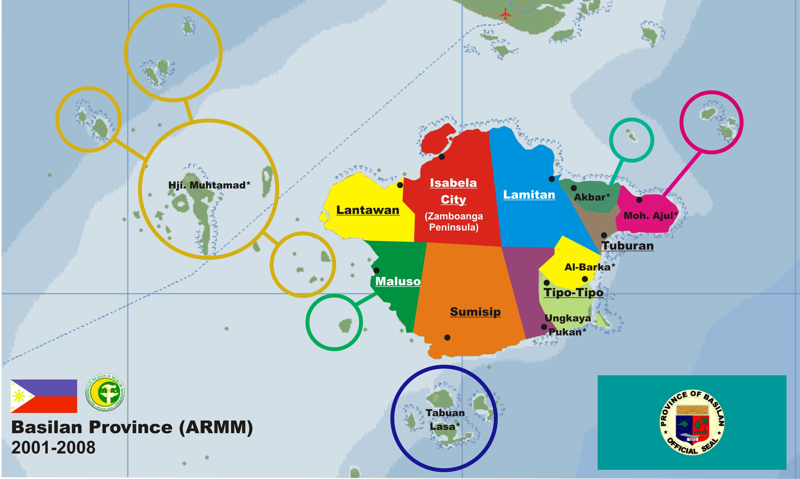 Basilan Political Map c. 2009